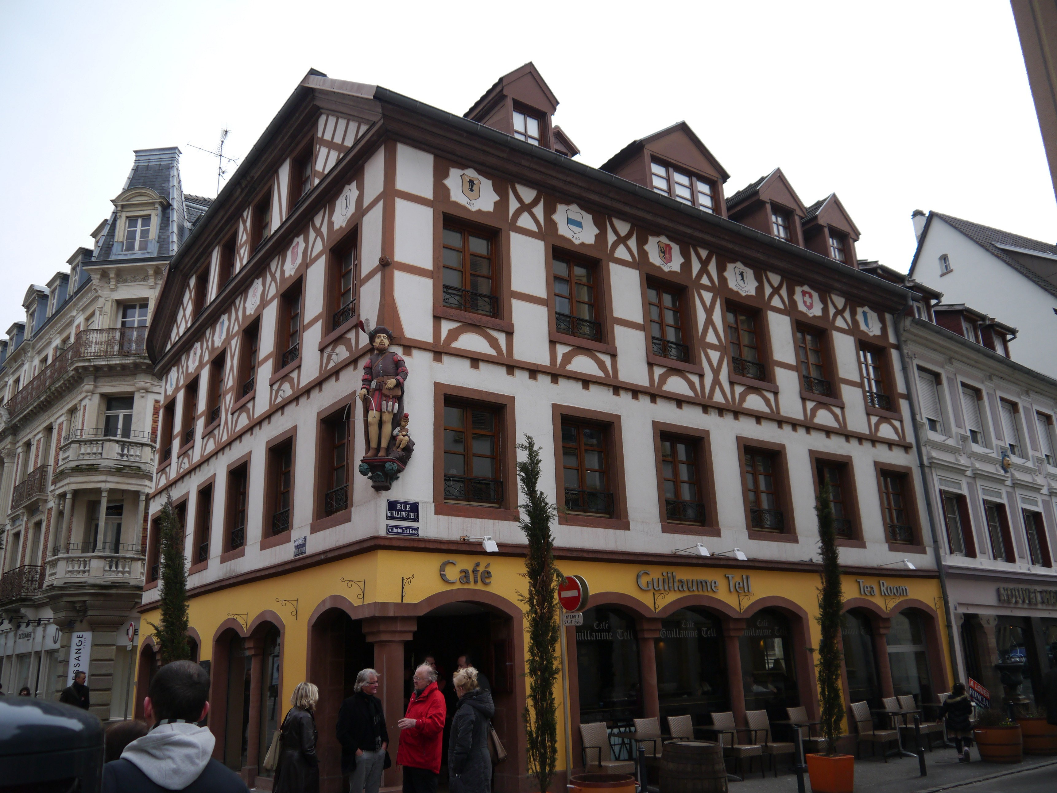 Old town/Place de la Réunion, Mulhouse, Alsace, France